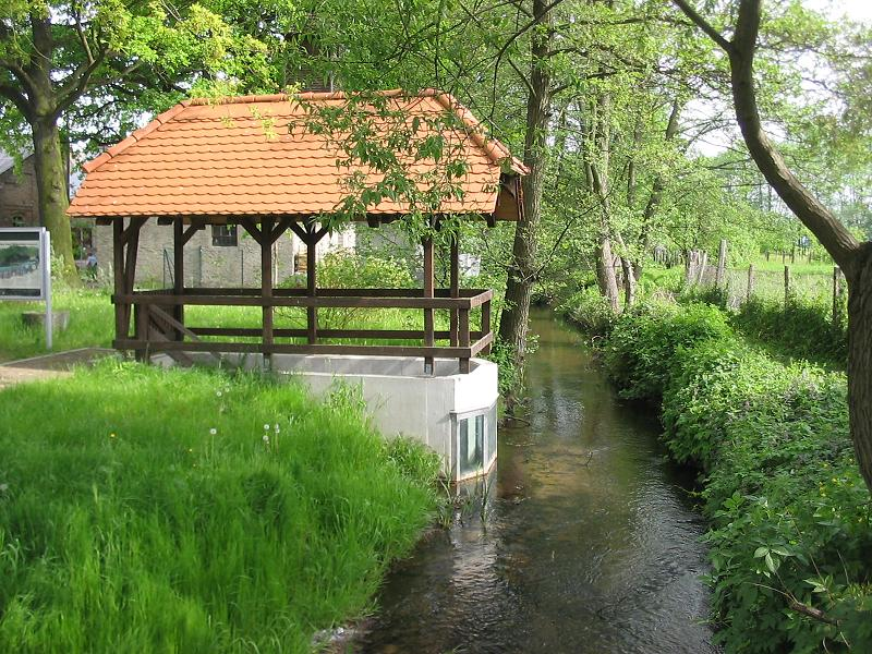 “Baitzer Bach“ (stream) in Baitz. The village Baitz is situated at the south border of the nature reserve Belziger Landschaftswiesen. It is an incorporated part of the town Brück in Brandenburg, Germany.